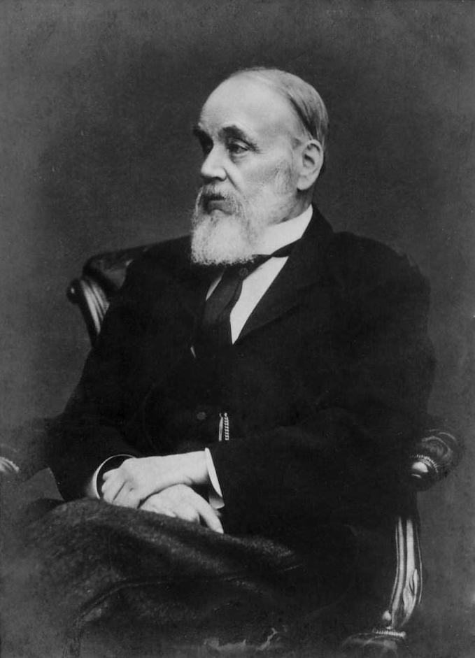 Photograph of Ivan Goncharov at age 74.